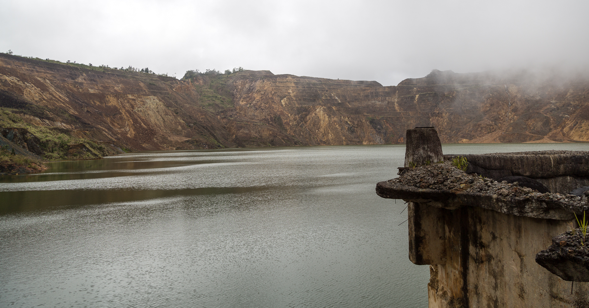 Ranau, Sabah: Mamut Copper Mine, view from lake level with pit for unloading the rocks. At the bottom of the pit was a conveyor